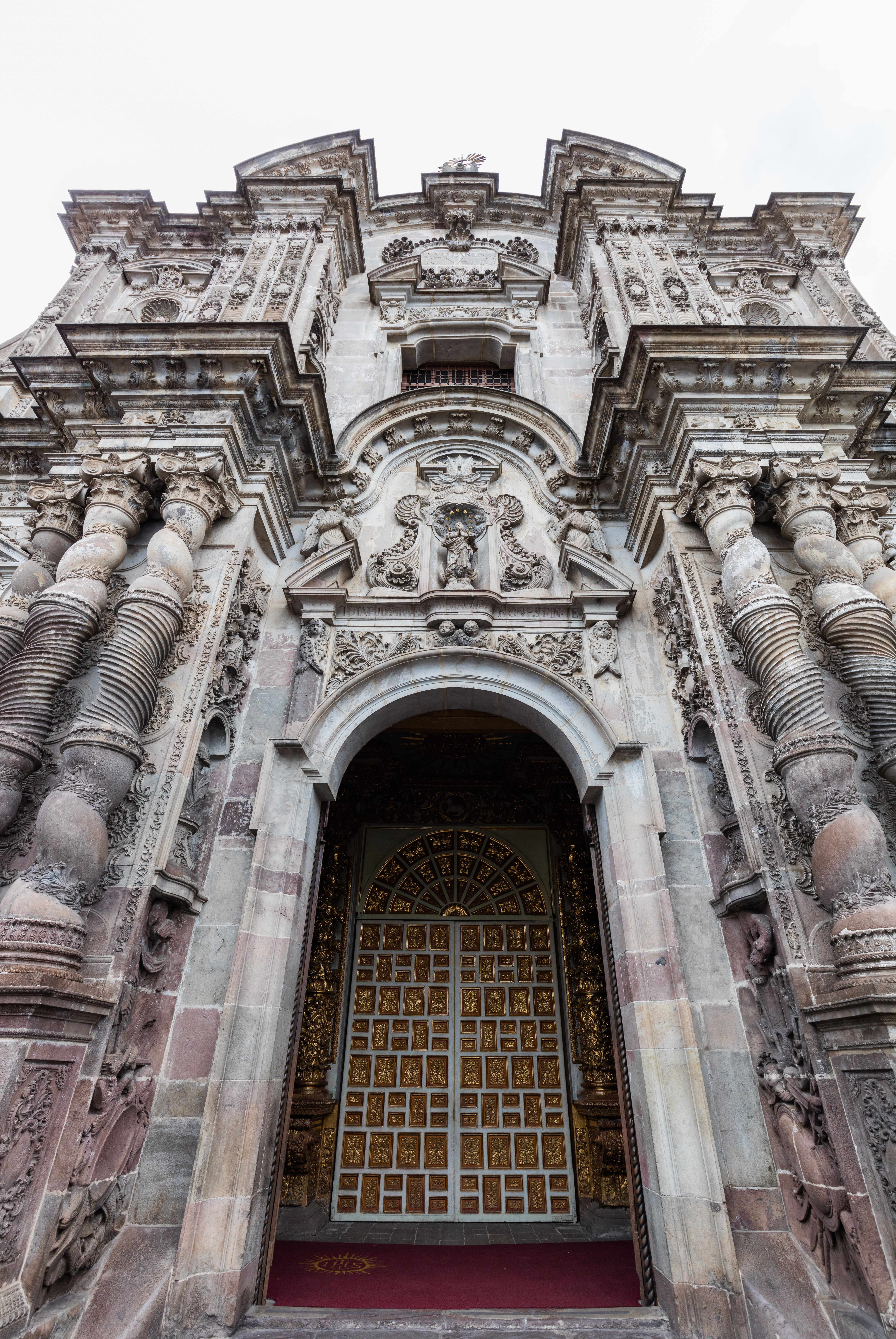 Church of the Society of Jesus, Quito, Ecuador